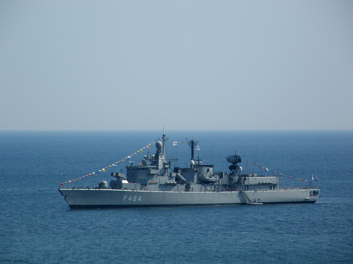 Hellenic Navy Frigate HS Kanaris (Φ/Γ Κανάρης), F-464 at Phaleron Bay. This is a Kortenaer-class (S) frigate.